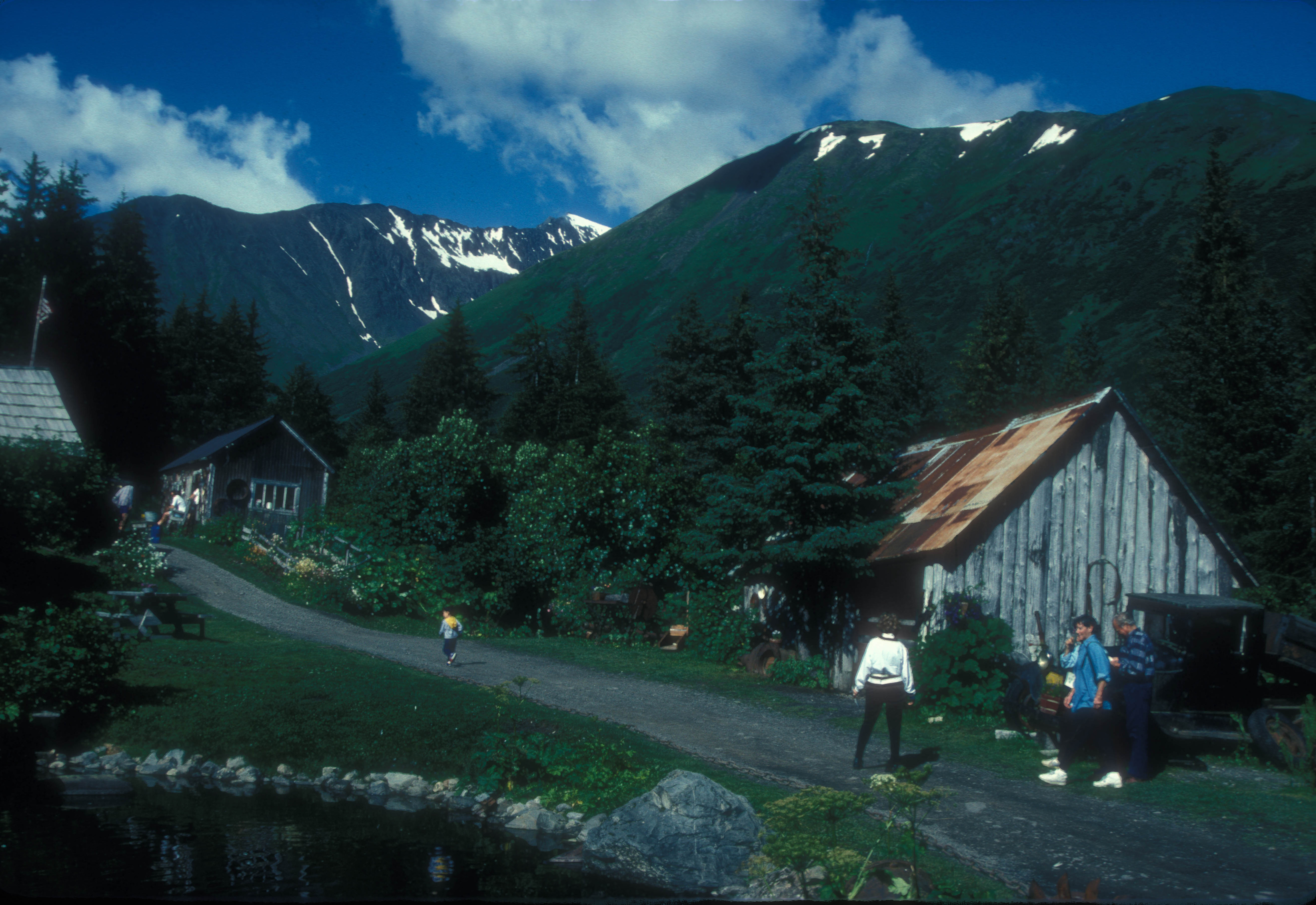 SITE OF A 1880 GOLD MINE STRIKE - 8 ORIGINAL BUILDINGS ON NATIONAL REGISTER. LOCATED IN GIRDWOOD; ONE OF THE LARGEST PRODUCING HYDRAULIC PLACER GOLD MINES IN SOUTH CENTRAL ALASKA